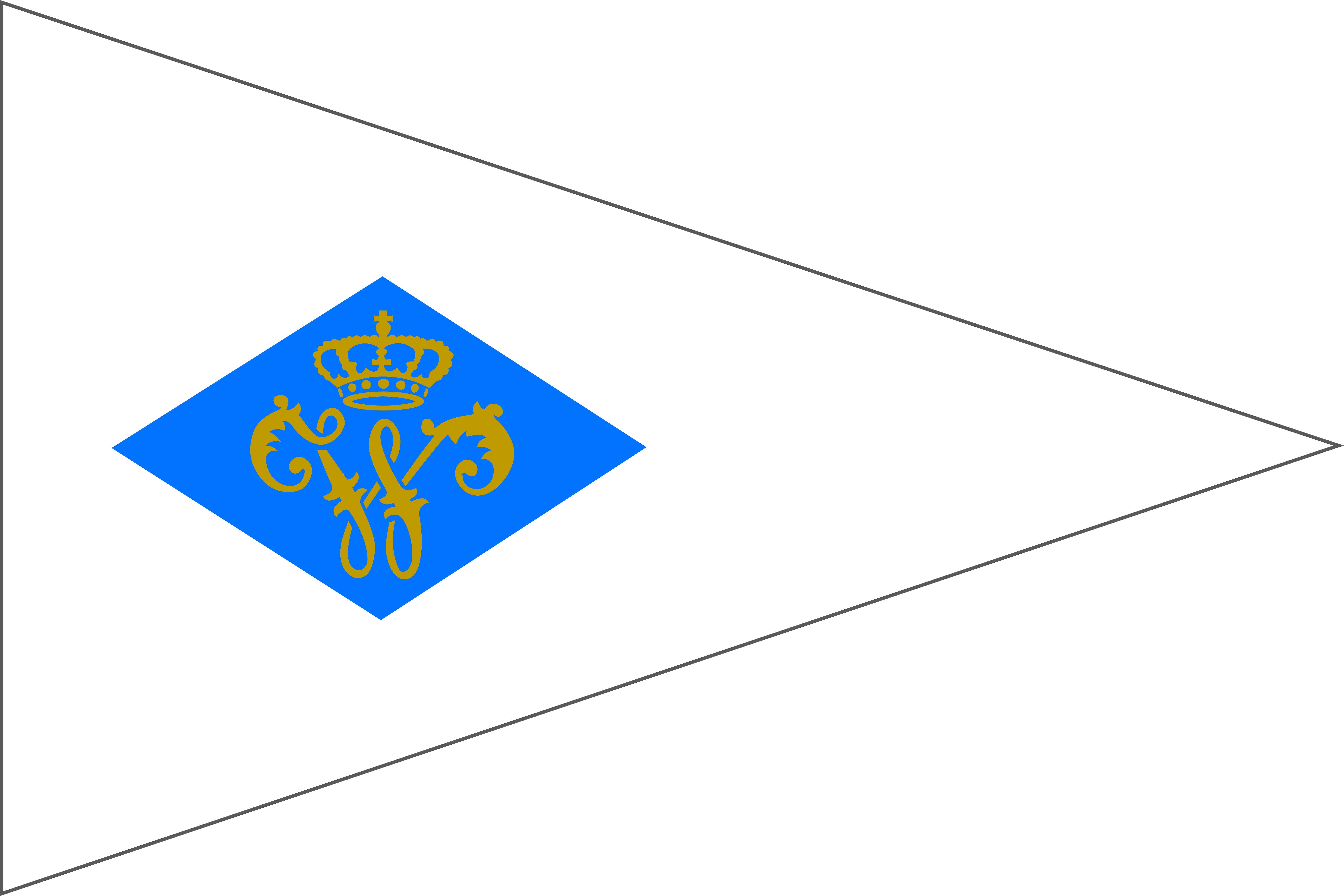 This burgee is used by all members of the Royal Netherlands Yacht Club (KNZ&RV). The burgee is a white triangle with a blue diamond. Within the diamond there is a crowned 'W', which is the cypher of King William the 3rd.